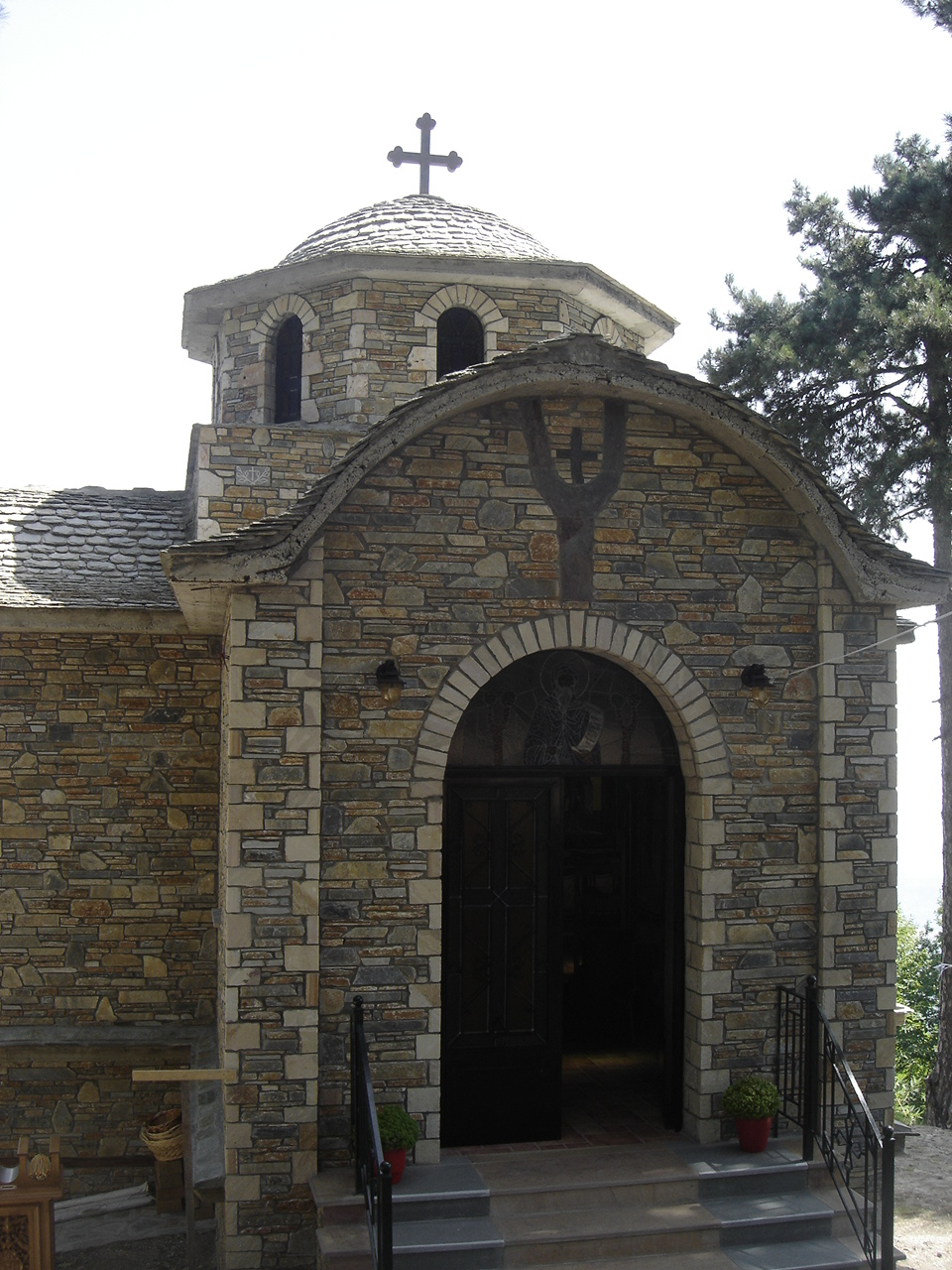 The new church of Kosmas Aetolos in Ano Milia.